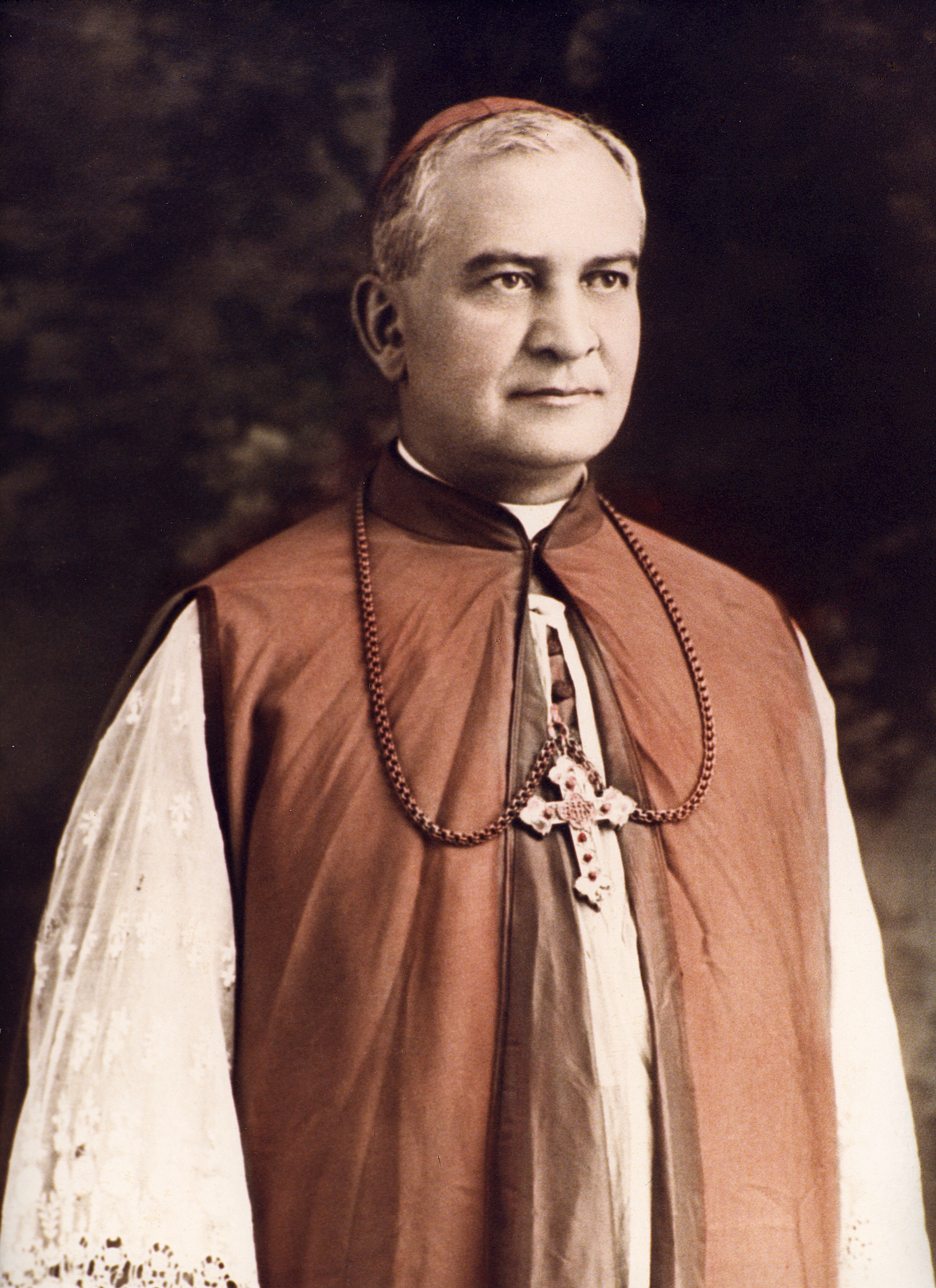 Blessed George Matulaitis-Matulewicz